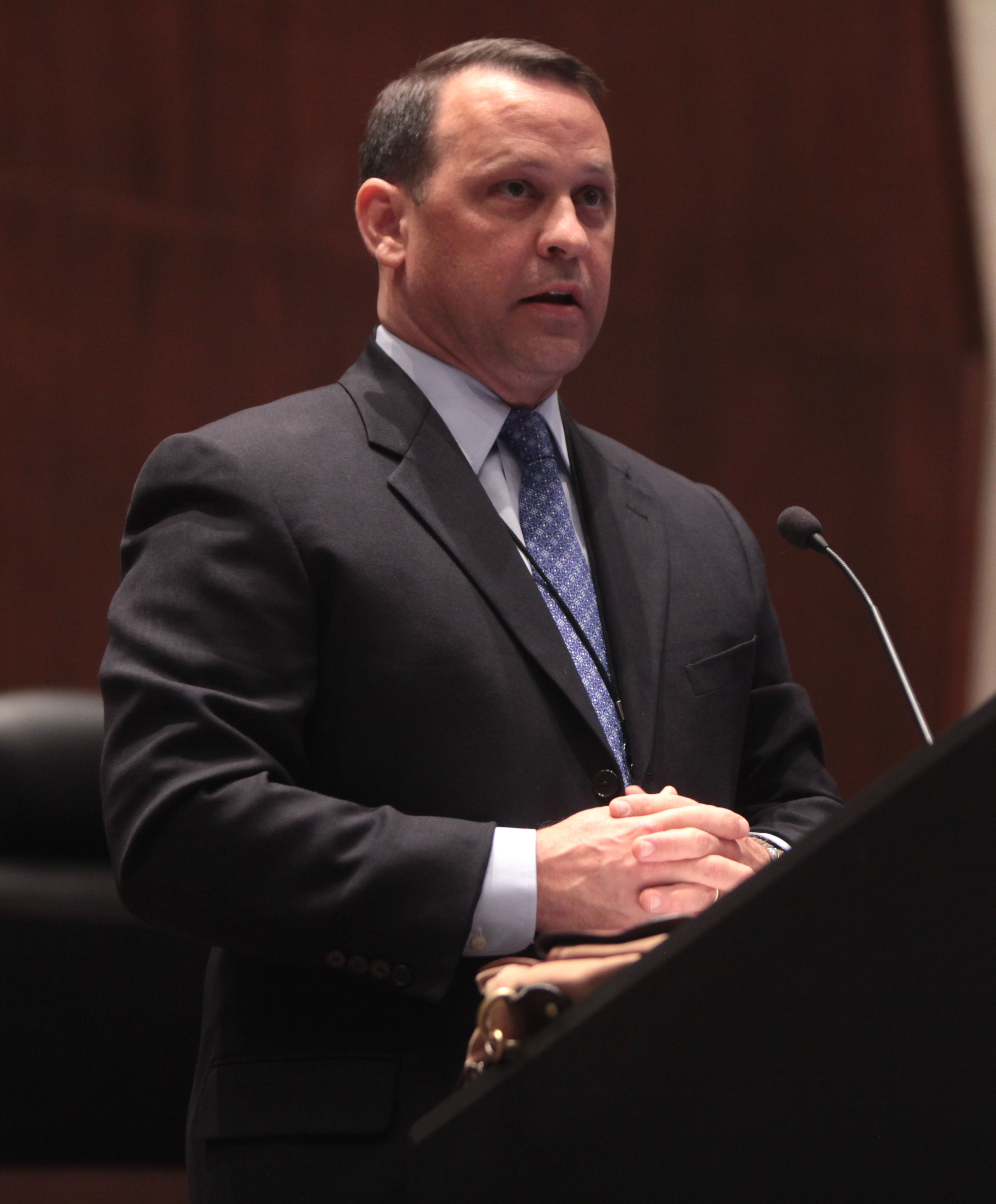 Solicitor General of Arizona John Lopez speaking at the Sandra Day O'Connor College of Law in Tempe, Arizona.